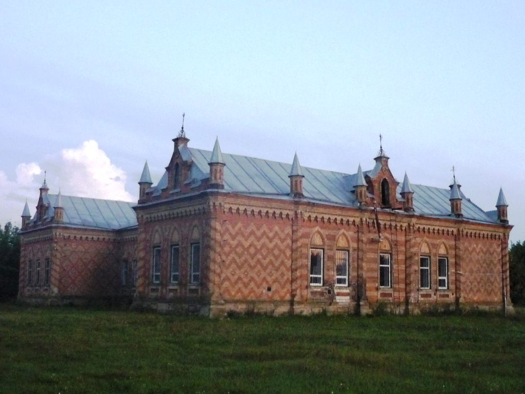 Bosh's House, Sloboda, Ukraine, beginning of the XXth century